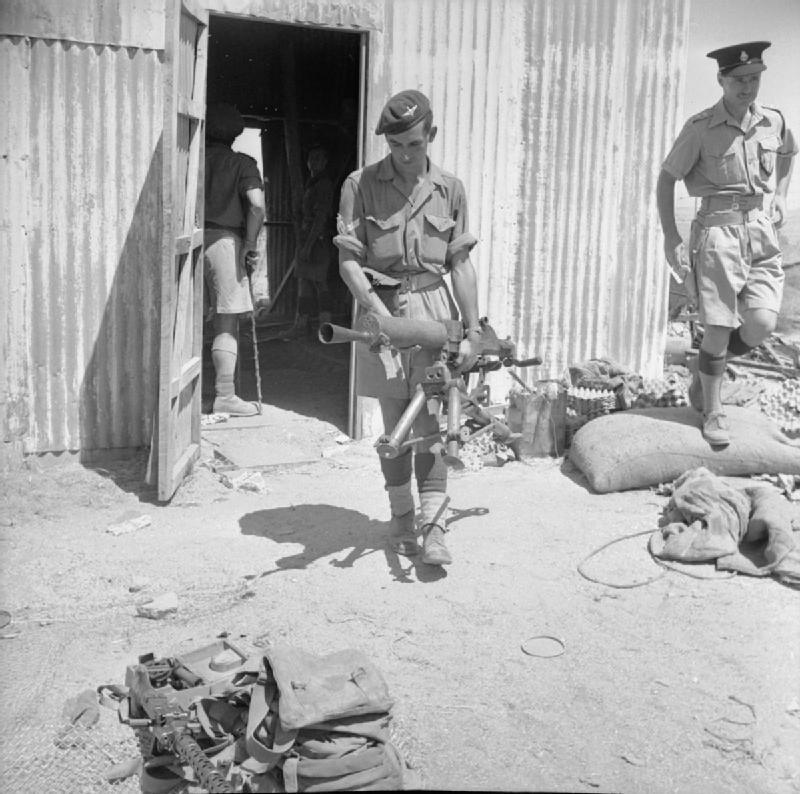 British Forces in the Middle East, 1945-1947 A corporal of the 6th Airborne Division carries a First World War Austro-Hungarian Schwarzlose machine gun from a chicken shed where part of a hidden cache of weapons was found in the Jewish settlement of Doroth near Gaza.